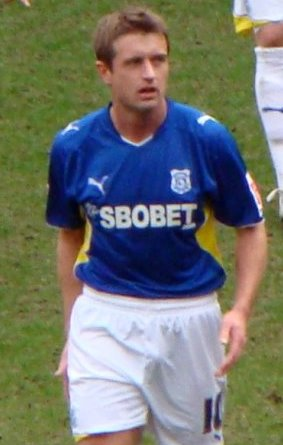 Stephen McPhail playing for Cardiff. 21/03/10 Cardiff V Watford, Championship, Cardiff City Stadium, Cardiff, Wales